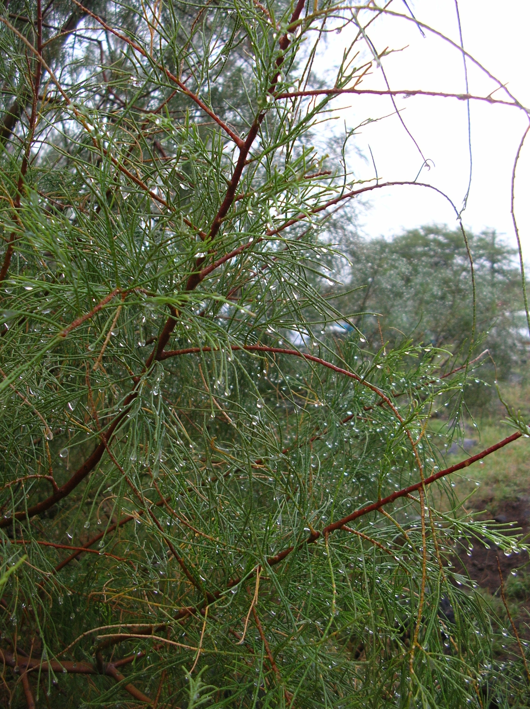 Tamarix aphylla (rainy weather). Location: Kahoolawe, Honokanaia